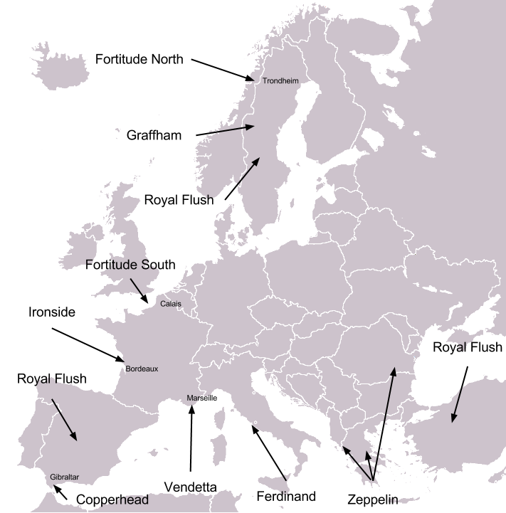 A map of the subordinate plans of Operation Bodyguard, the 1944 deception in support of the Allied invasion of Normandy (D-Day).